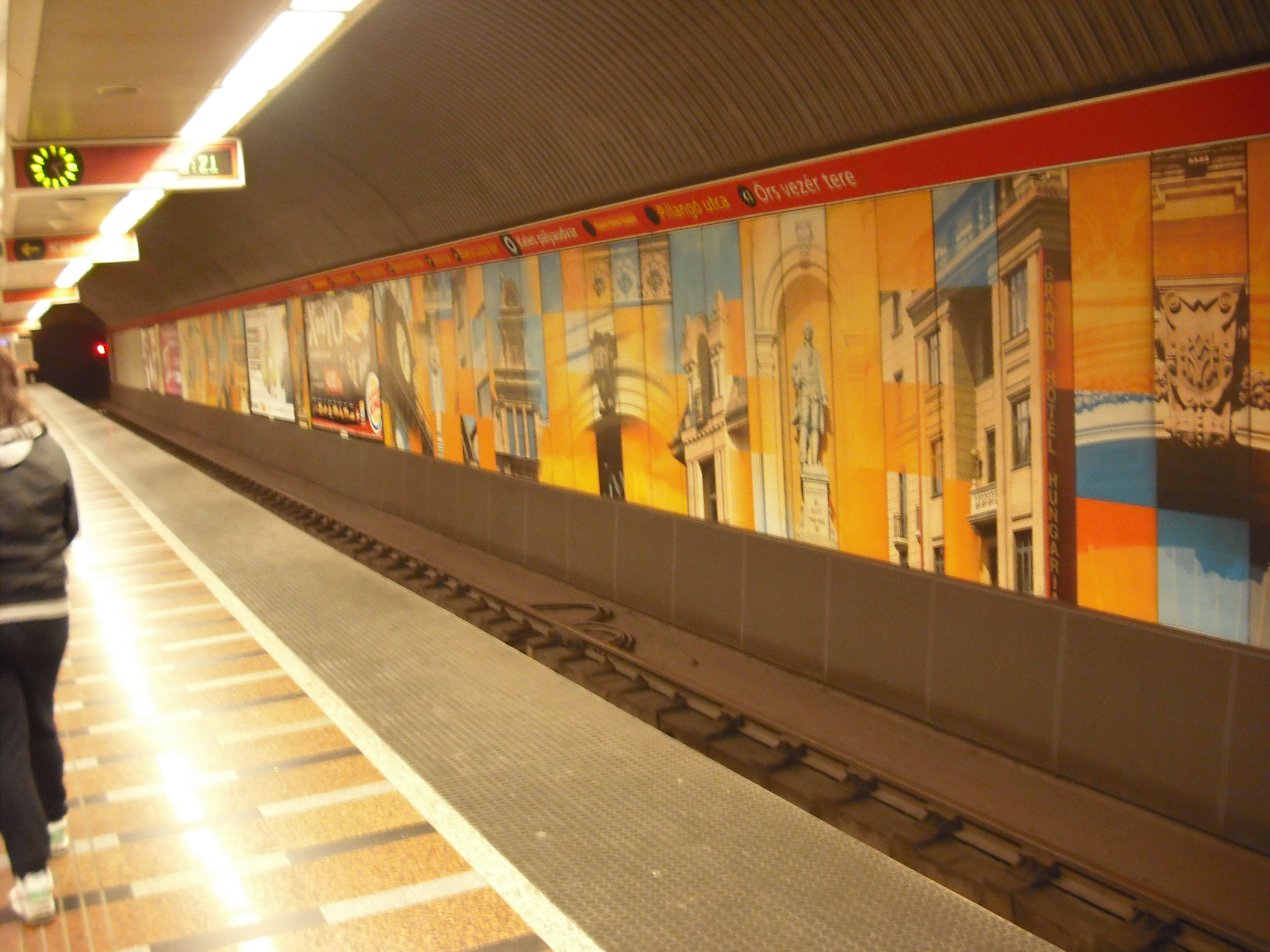 Inside the station Keleti pályaudvar, on Budapest Metro system.